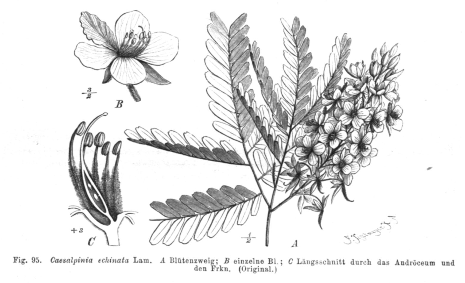 Illustration from book. The Brazil's name is after this Brazilian wood (Pau Brasil in Portuguese)